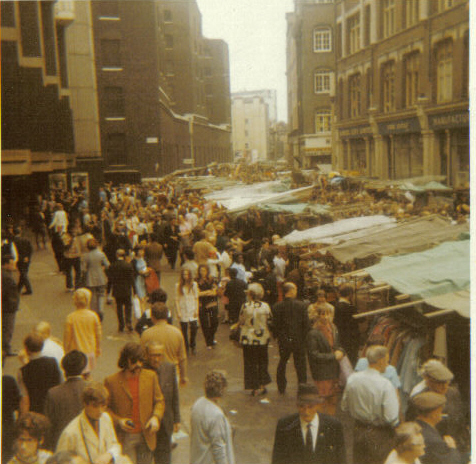 No, its not the opening titles from Only Fools and Horses, this is Petticoat Lane market, in Wentworth Street, probably the most famous and oldest of all London's street markets. The market was established over 400 years ago and still attracts visitors from all over the world. This is how it looked back in July 1971.